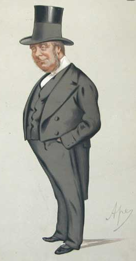 Caricature of John Freeman-Mitford, 2nd Baron Redesdale (1805-1886). Caption read "the Lord Dictator".